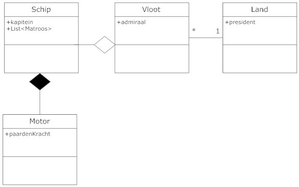 UML Class Diagram representing difference between association, composition and aggregatation.